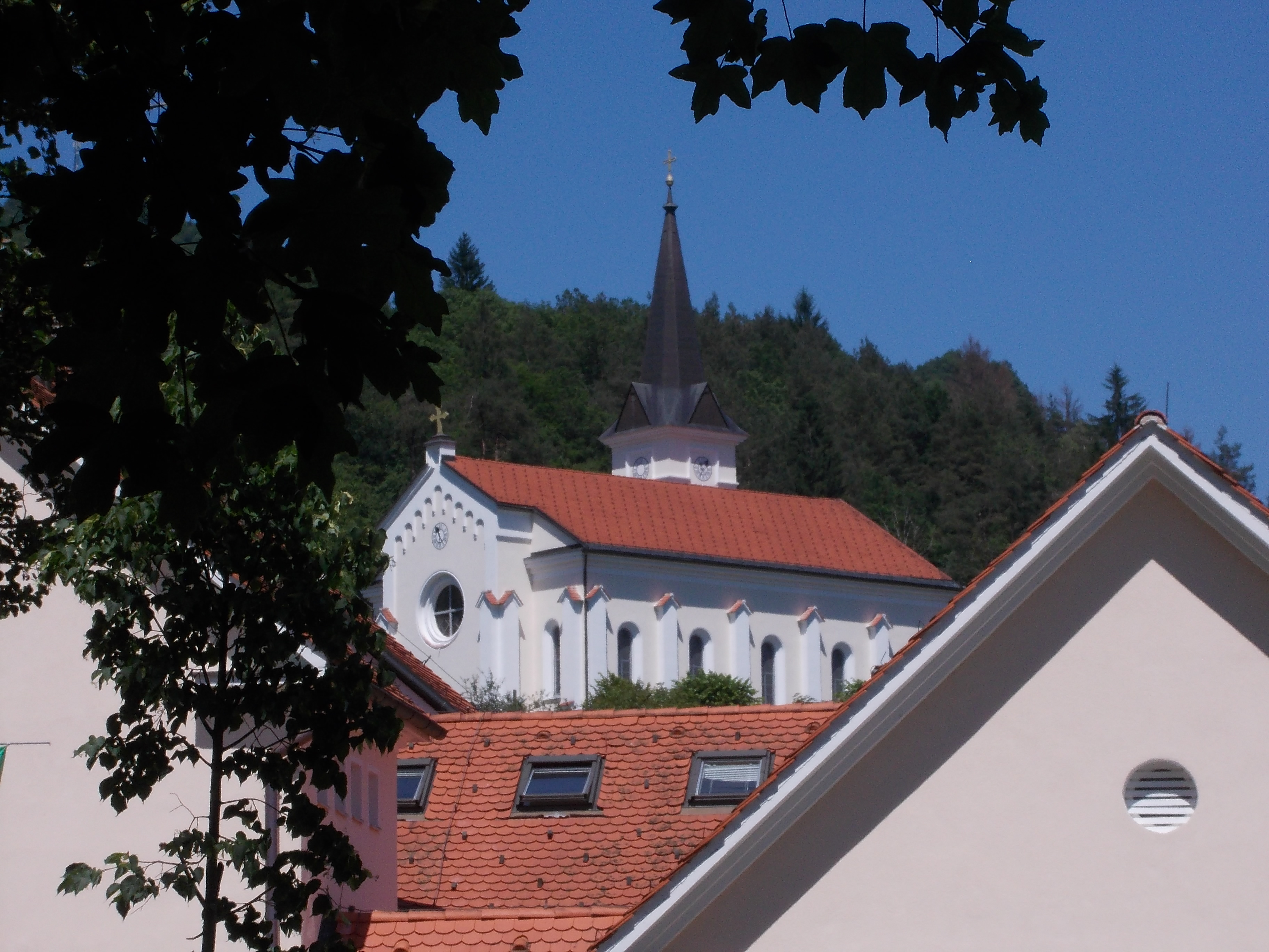 Fara, Kostel